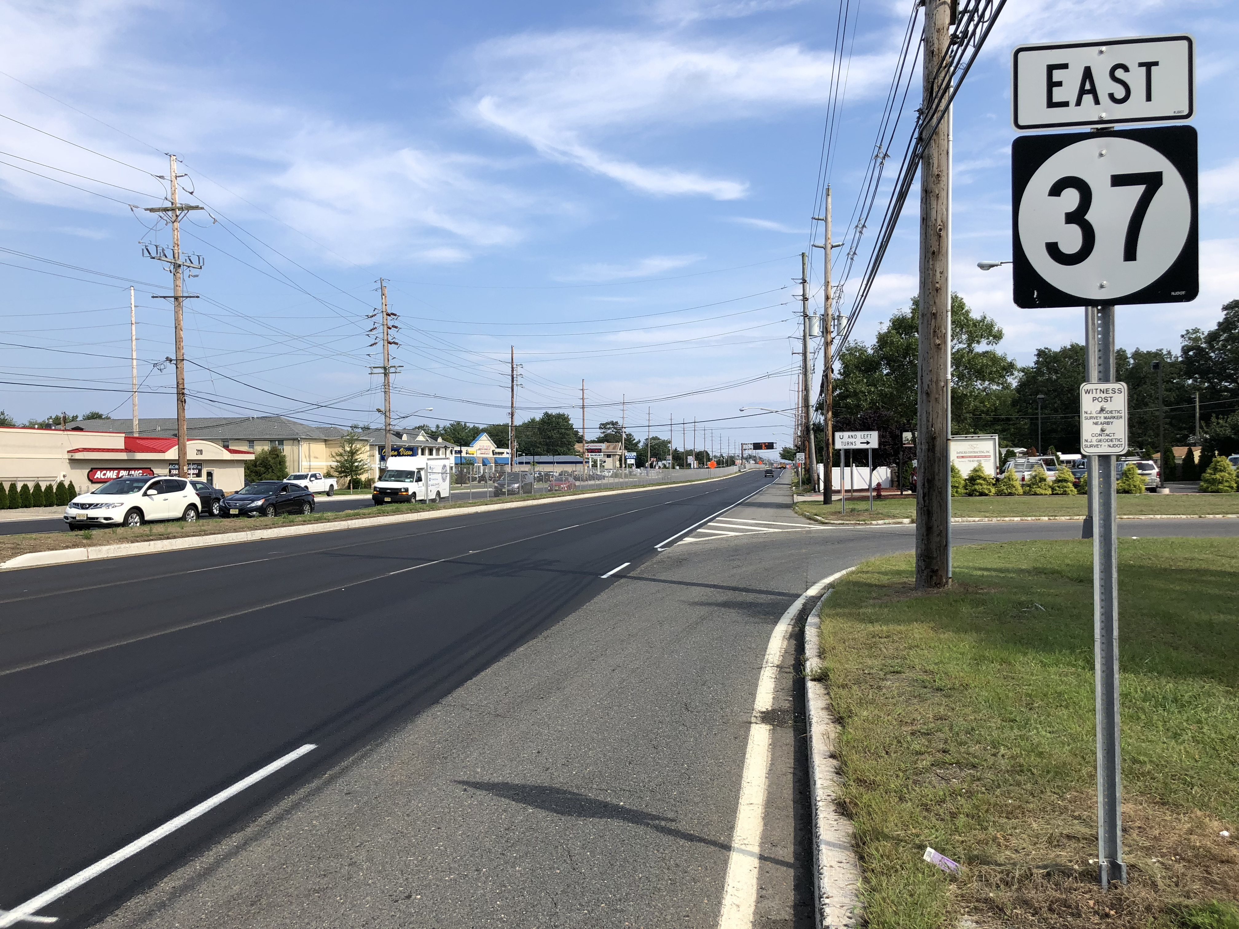 View east along New Jersey State Route 37 just east of Coolidge Avenue in Toms River Township, Ocean County, New Jersey